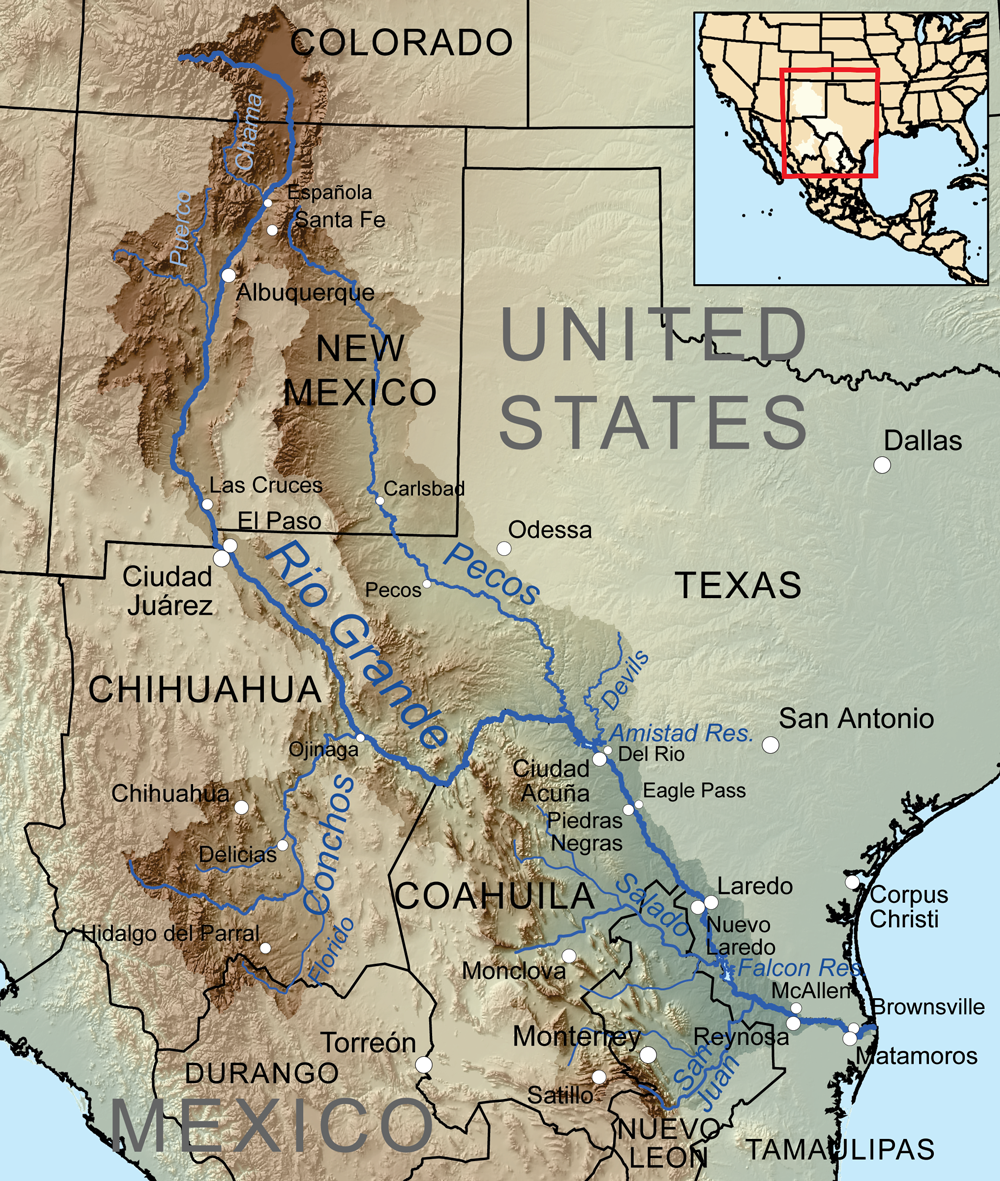 Map showing the Rio Grande, and its tributaries — within the Rio Grande drainage basin Located in northeastern Mexico and the southwestern / south-central United States.